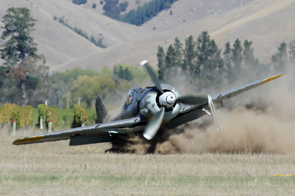 Frank Parker, an experienced New Zealand based Warbird Pilot, did a polished handling demo in new build Focke-Wulf Fw190A-8 ZK-RFR Cn 990001, at the Classic Fighters Omaka Airshow on ‘Practice Day’ Friday 03Apr2015. A normal Port-side crosswind landing followed, which rapidly became a high-speed ground loop when the Stbd brake failed. The aircraft ‘swapped ends’ and departed the grass runway about 45 degrees to the left of runway heading, skidding backwards on its belly-mounted external fuel tank. The intact wooden propeller is shown ‘about to disintegrate’ when the propeller tips contacted the ground. Frank exited the aircraft safely, but the aircraft will require extensive repairs. Apologies for the ‘heat haze’ in this image.